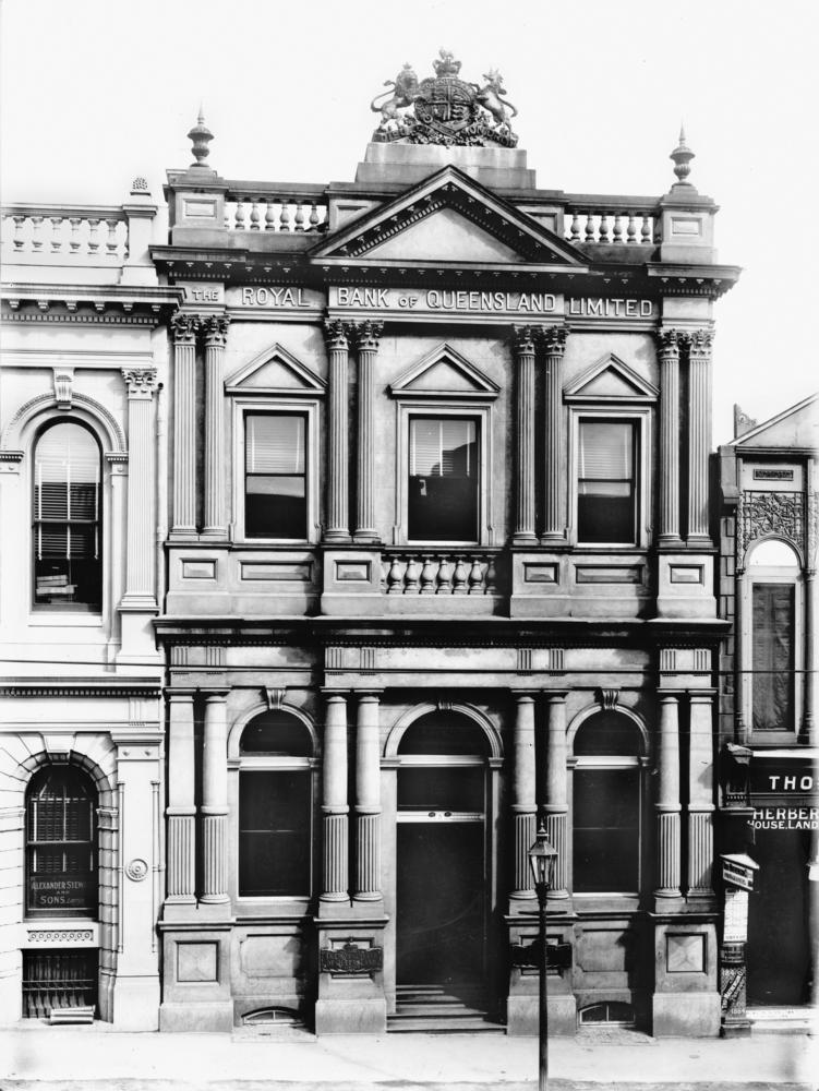 Royal Bank of Queensland, Brisbane, ca. 1900. Erected ca. 1891. A larger National Bank was erected on this site in 1930-32. (Description supplied with photograph.).